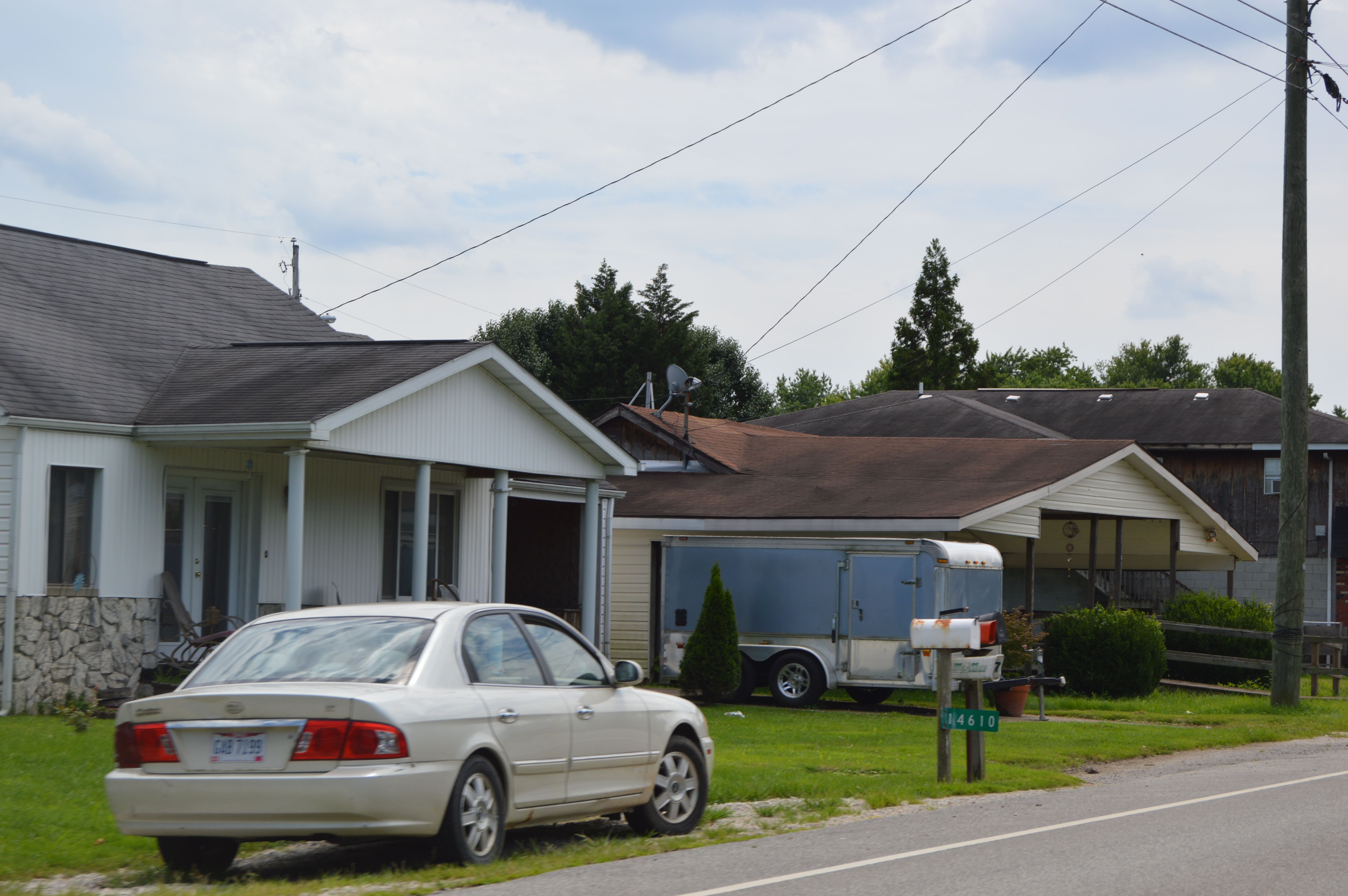 Houses on the eastern side of Market Street (State Route 7) just north of the Myrtle Street intersection in Athalia, Ohio, United States.